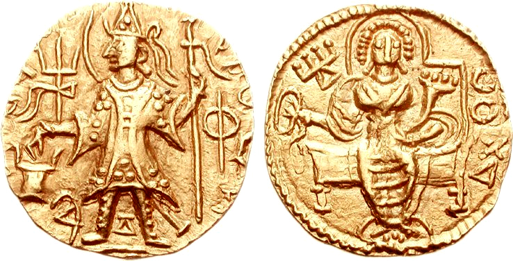 Vasishka. Circa AD 240-250. AV Dinar (7.81 g, 12h). Mint E. 2nd emission. [ÞAONANOÞAO BAZH]ÞKO K[O]ÞA[NO], Vasishka, nimbate, diademed, and crowned, standing facing, head left, sacrificing over altar to left, holding trident in left hand; filleted trident to left; “Vira” in Brahmi to inner left at feet; “Va” in Brahmi between legs; “Chhu” in Brahmi in inner right field / ΔXOO up right field, nimbate and diademed Ardoxsho seated facing on throne, feet holding filleted investiture garland in right hand and cradling cornucopia in left arm; above, tamgha to left.